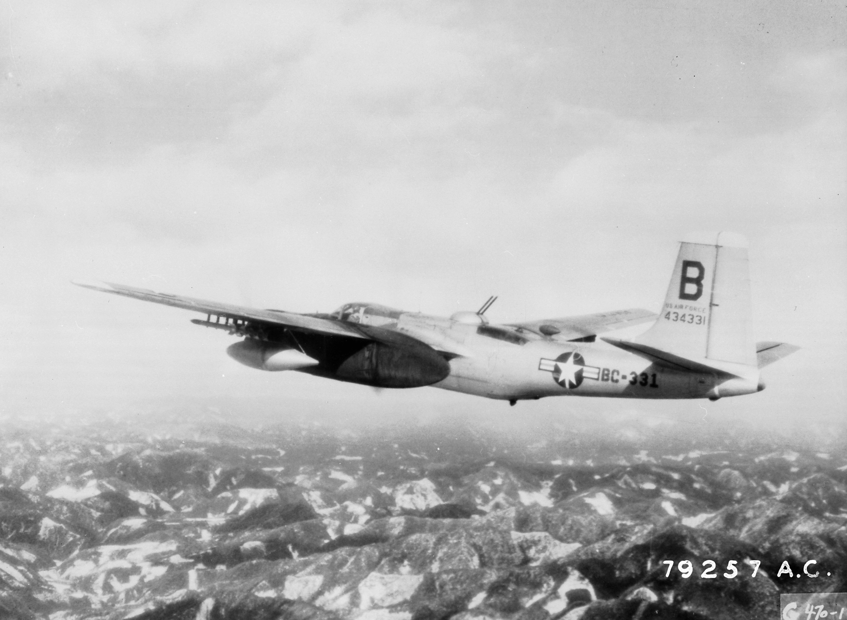 A U.S. Air Force Douglas B-26B-51-DL Invader (c/n 27610, s/n 44-34331) of the 8th Bomb Squadron, 3rd Bomb Group, over North Korea, circa February 1951. This aircraft was shot down by flak on 17 February 1951. Original caption: "This B-26 is going hunting, and is well prepared to accommodate any Korean Communist enemy game in whatever manner it may be found ."